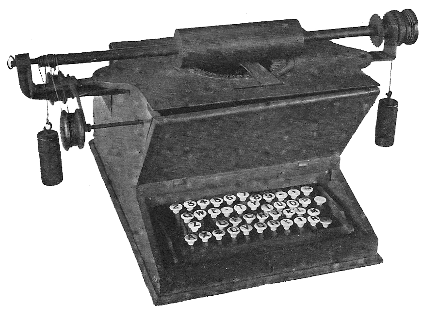 Sholes and Glidden typewriter, circa 1873